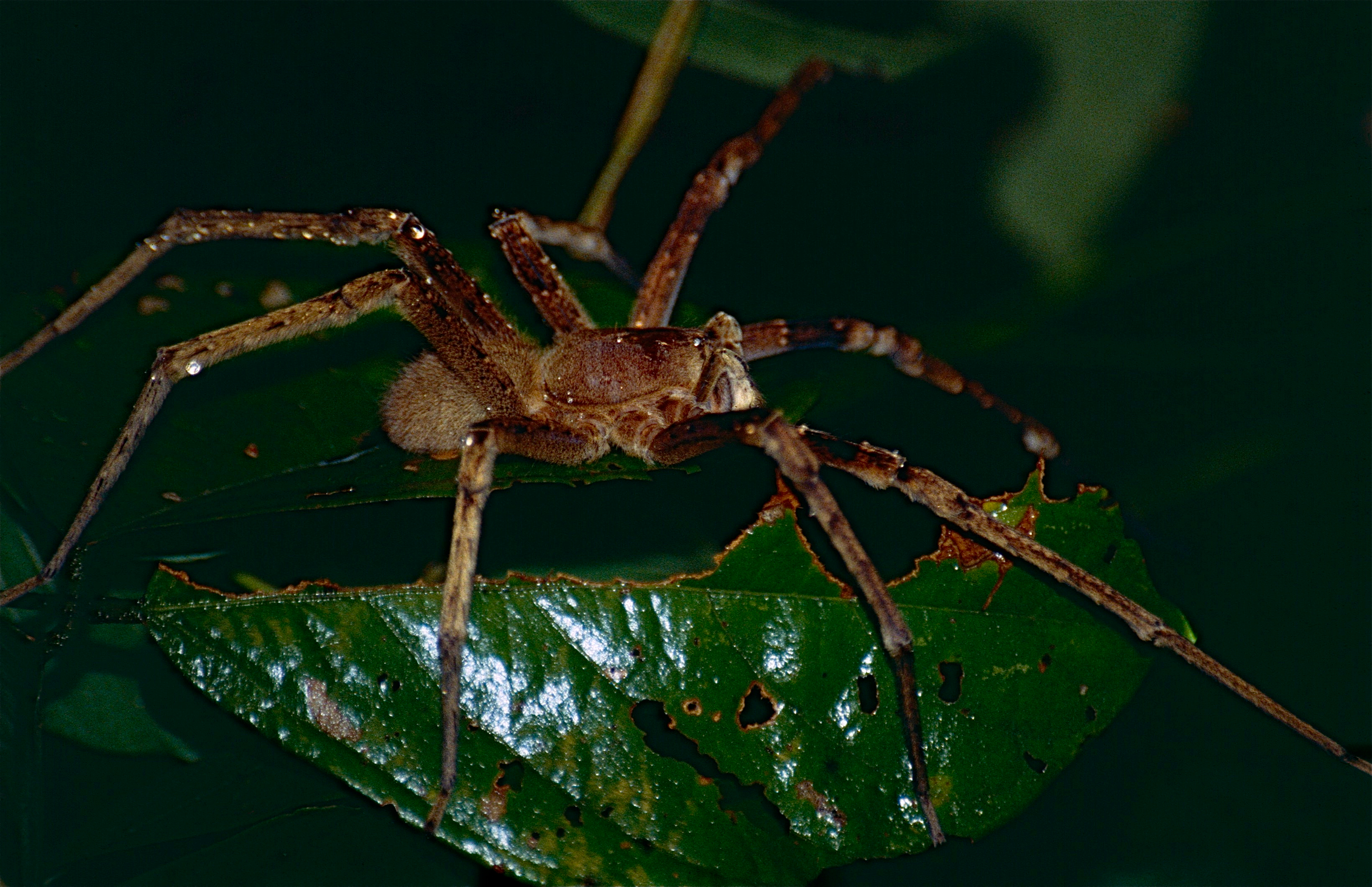 Roura, Guyane, FRANCE Scanned Slide from 1998